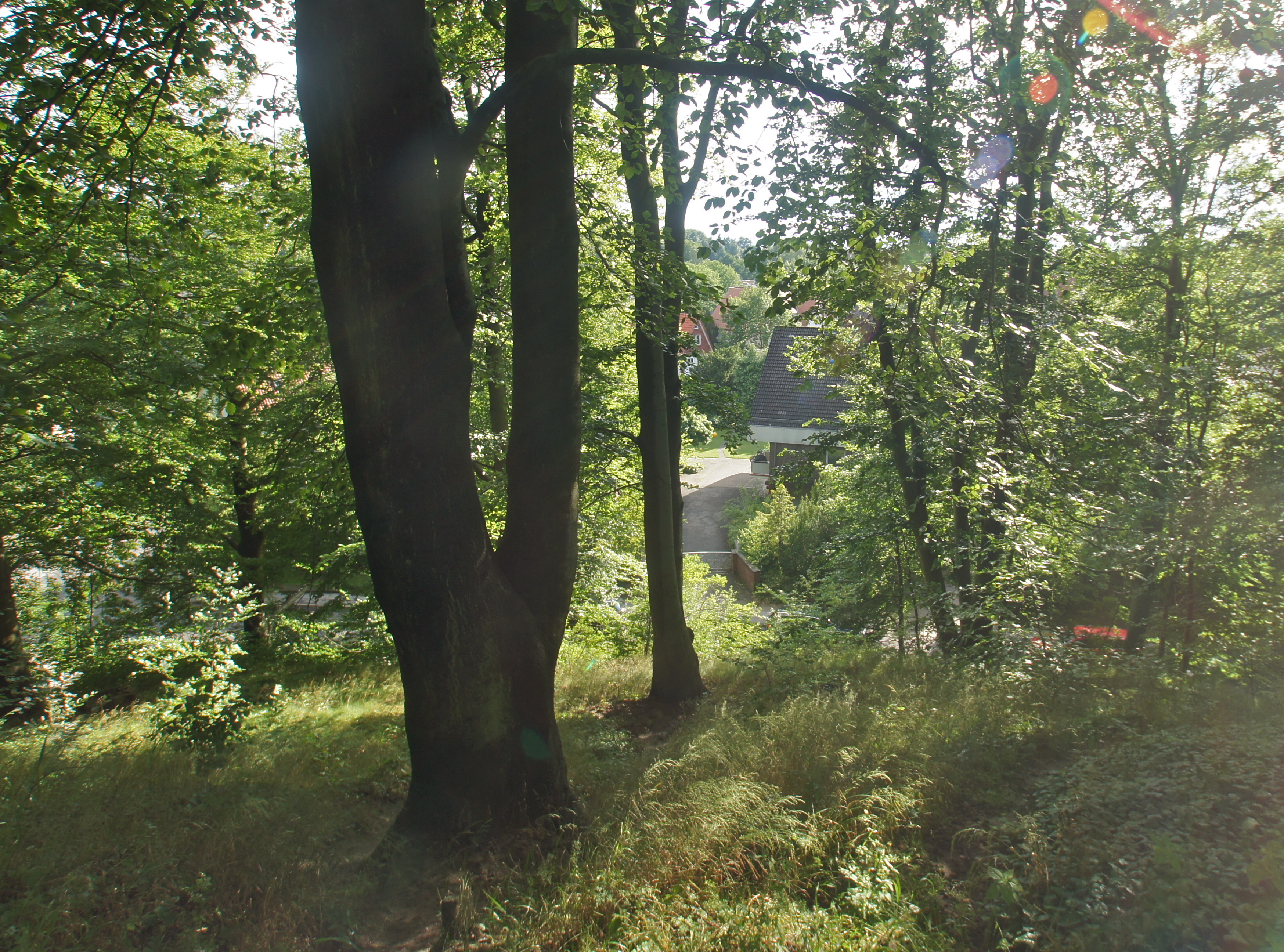 Hamburg (Rönneburg), Germany: Sight on top of the mount Burgberg in easter direction